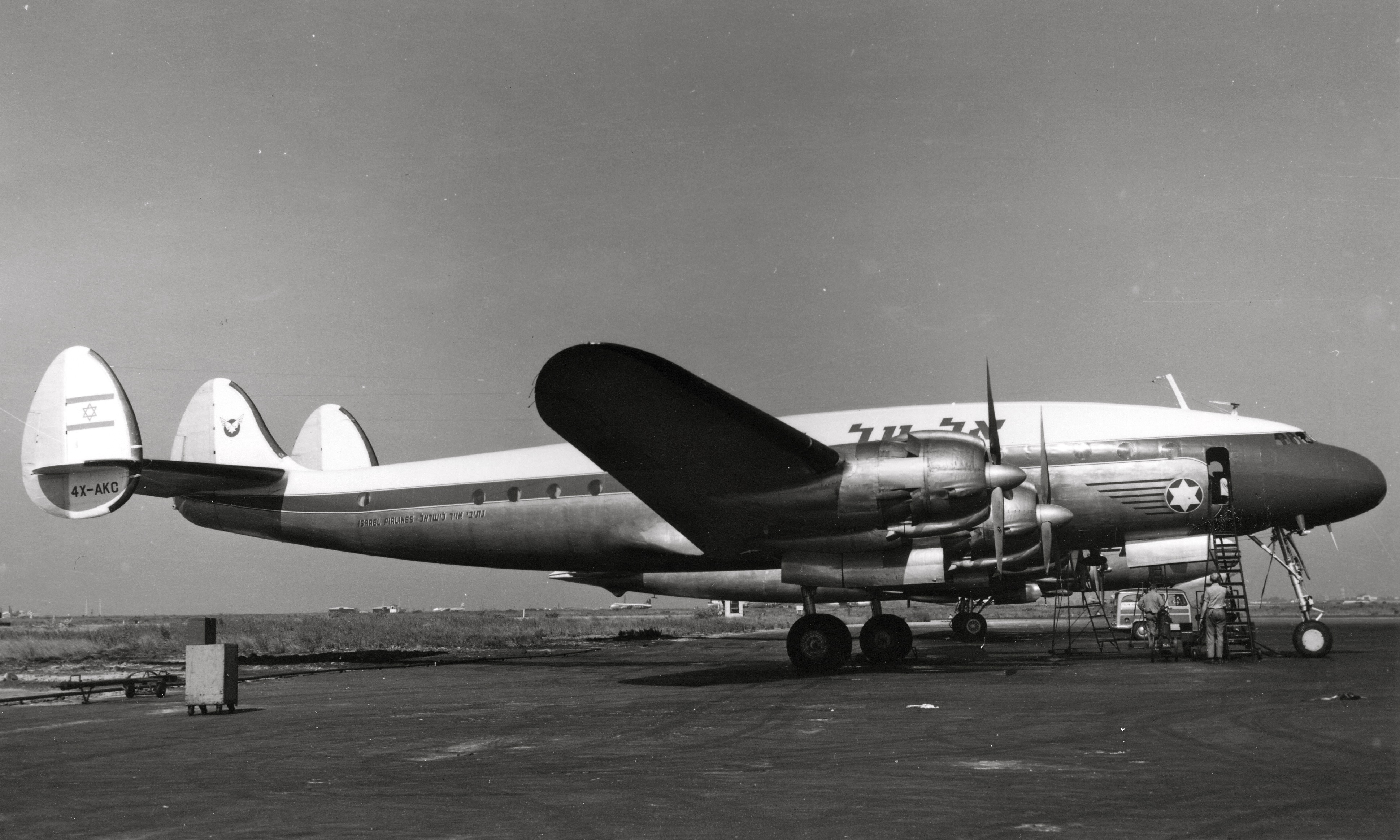 4X-AKC, Lockheed Constellation L-149 of El Al, probably at Idlewild Airport (JFK). With the kind help of Marvin G. Goldman.